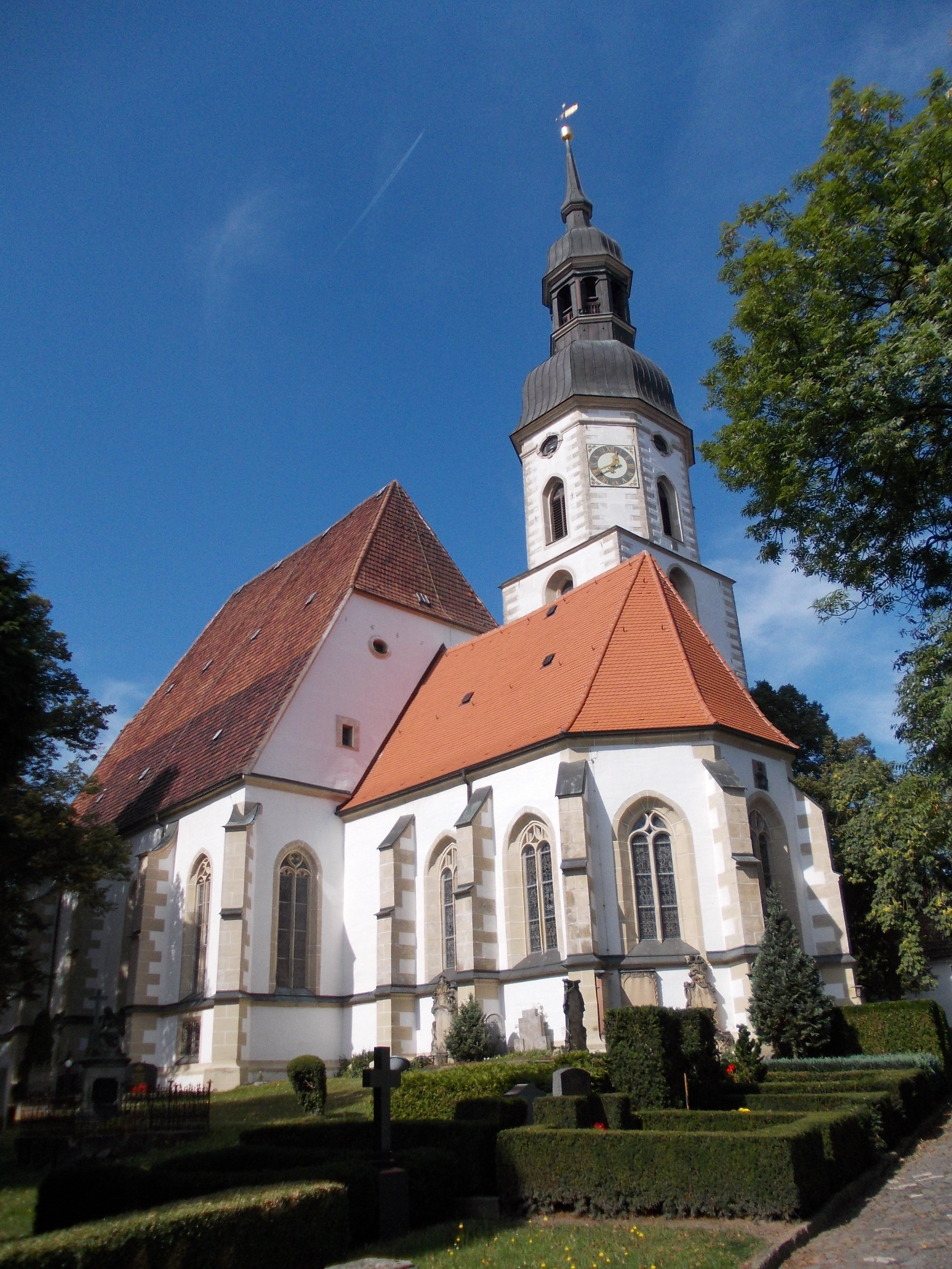 The church of the town of Strehla (Meissen district, Saxony)